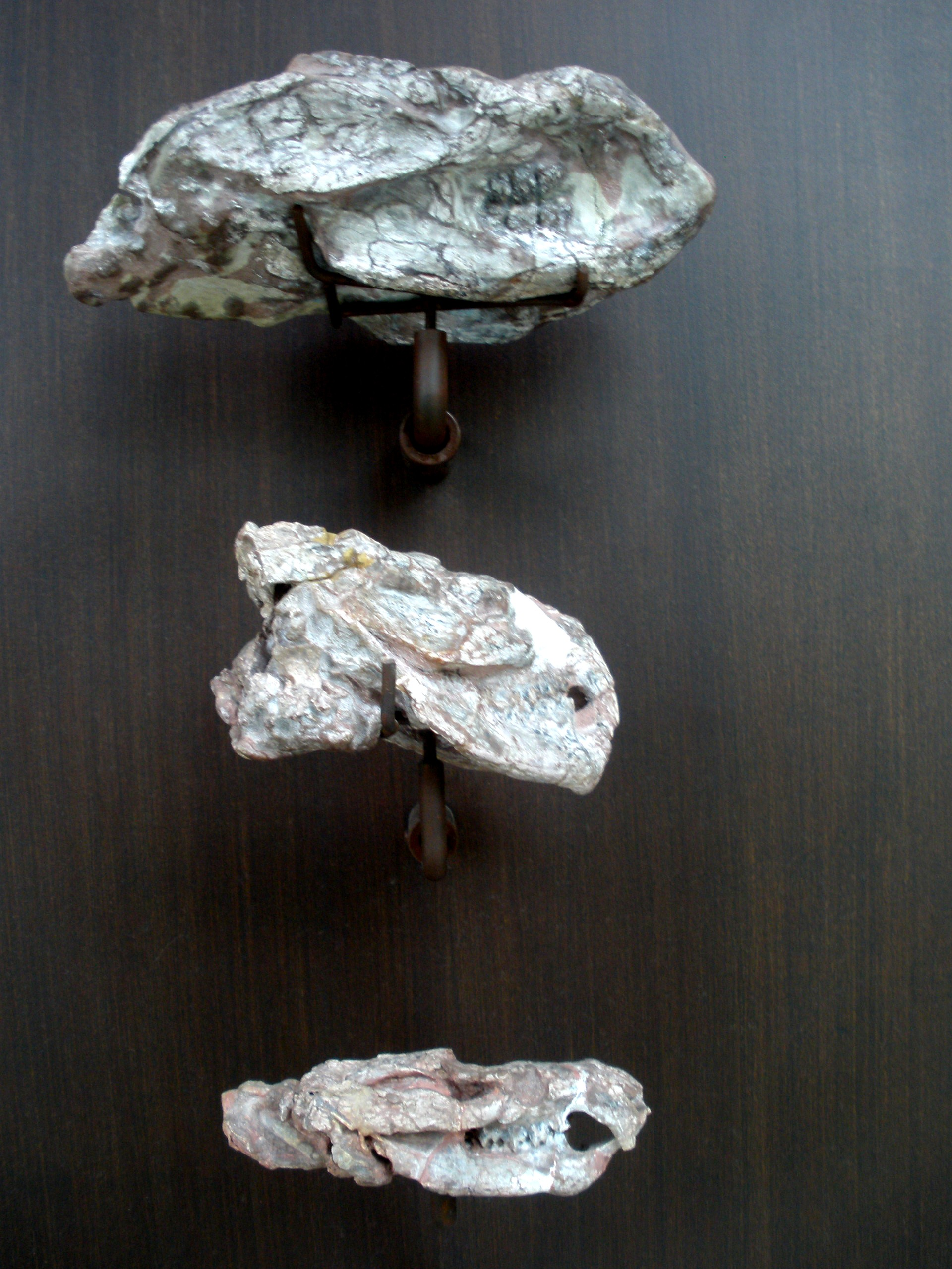 Skulls of Kayentatherium, a fossil therapsid DateApril 2008Sourcetook the foto on the "American Museum of Natural History" in New YorkAuthorGhedoghedoPermission (Reusing this file)